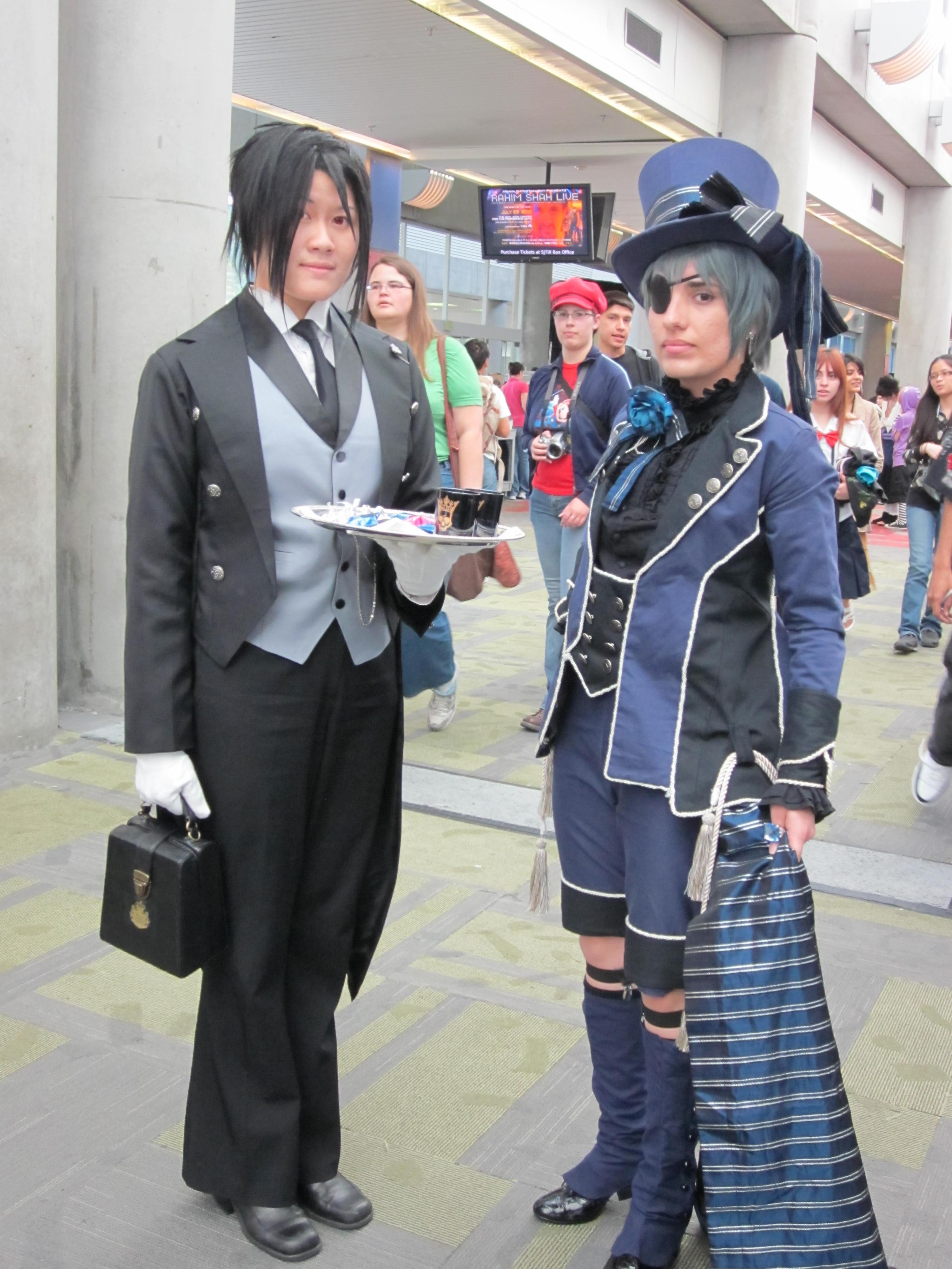 Cosplayers portraying Sebastian Michaelis and Ciel Phantomhive from Black Butler at FanimeCon 2010 in San Jose, California.